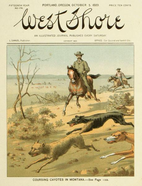 Cover of 5 October 1889 edition of West Shore magazine showing dogs and riders chasing a coyote; the cation reads: "Coursing cayotes in Montana"